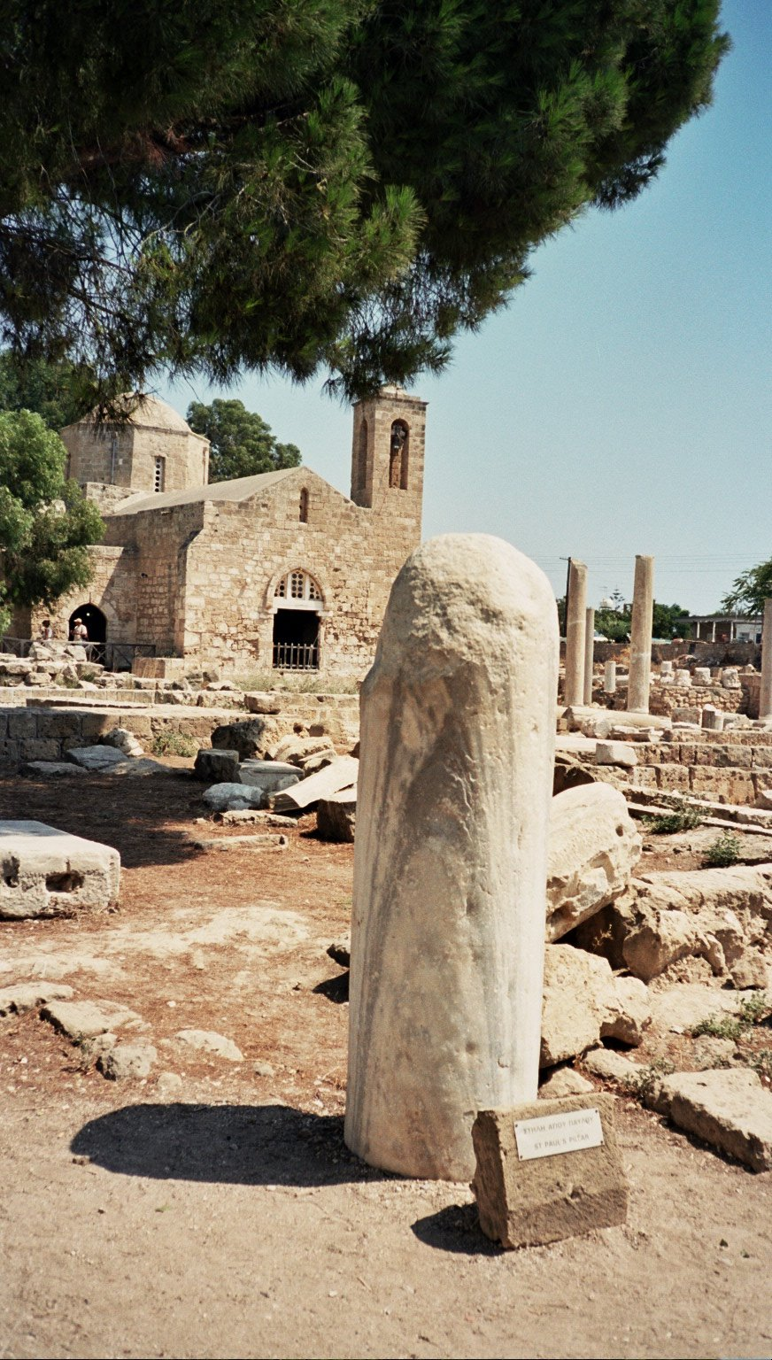 St Paul's Pillar in Paphos, Panagia Chrysopolitissa Church behind